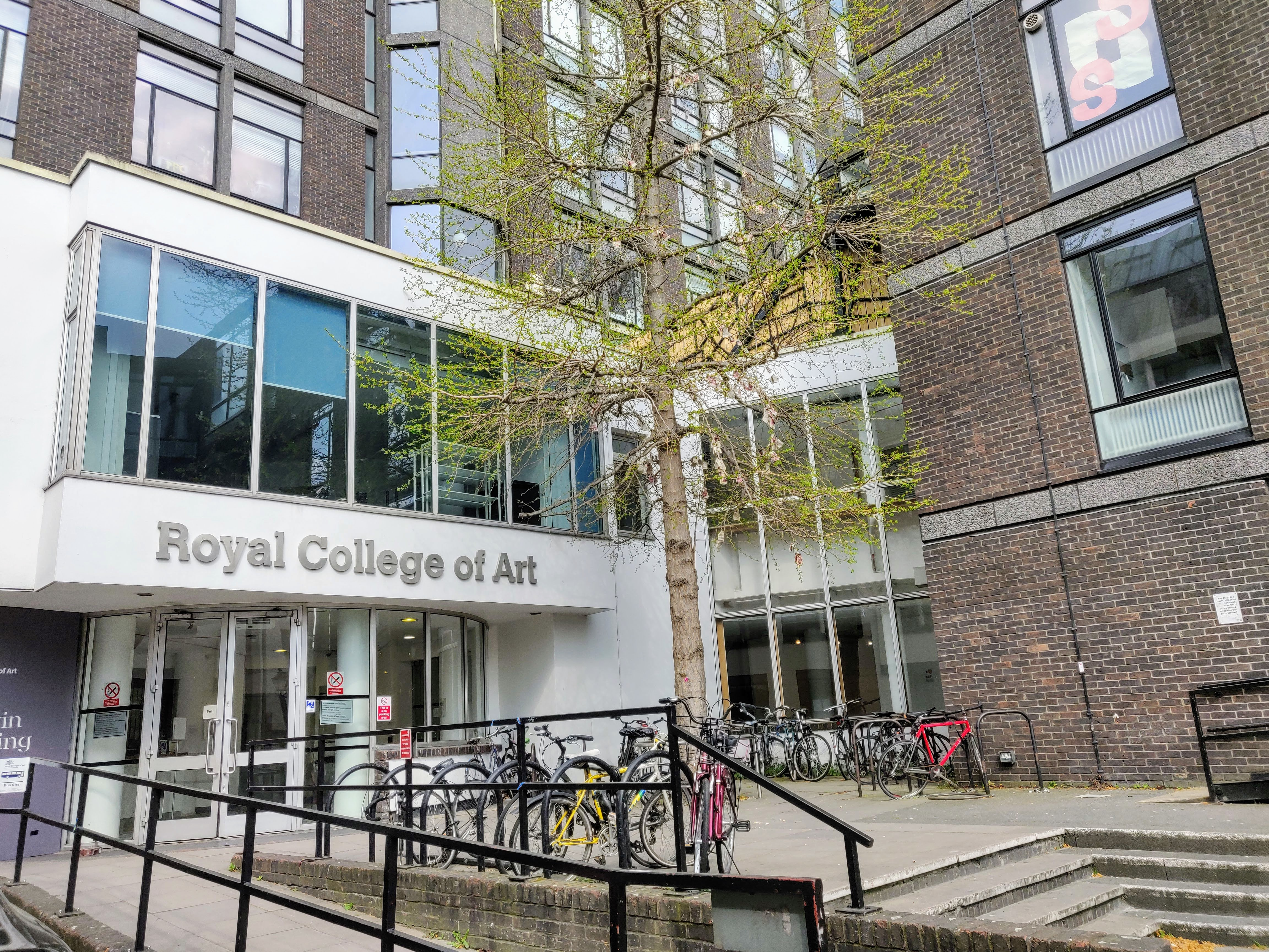 The Darwin Building is the main building of the South Kensington campus of the Royal College of Art. The photograph displays its entrance from Jay Mews.